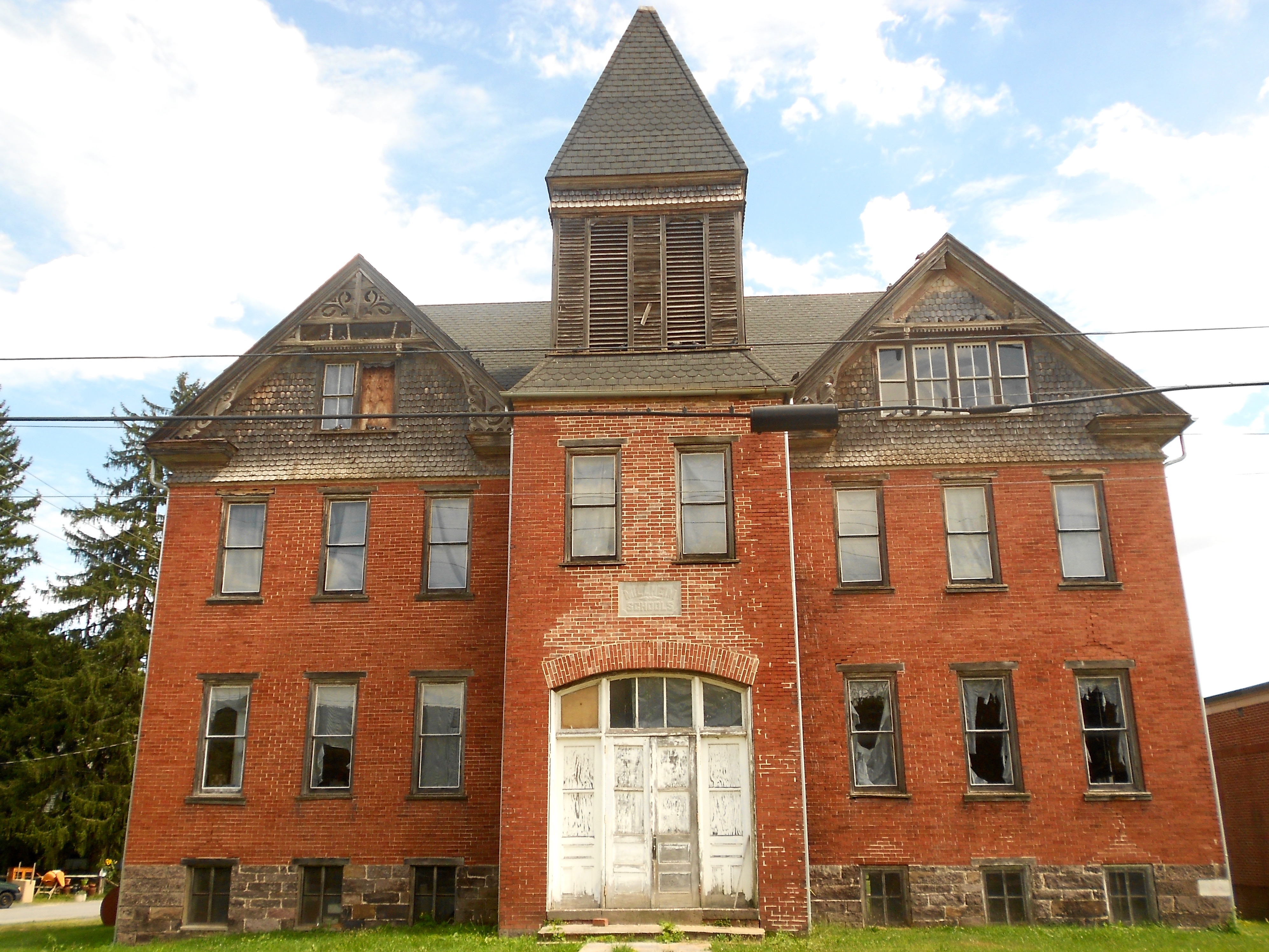 Old school in Milheim, Centre County, Pennsylvania. Stone above the door say "Milheim Schools" (plural) so I assume there were other schools around